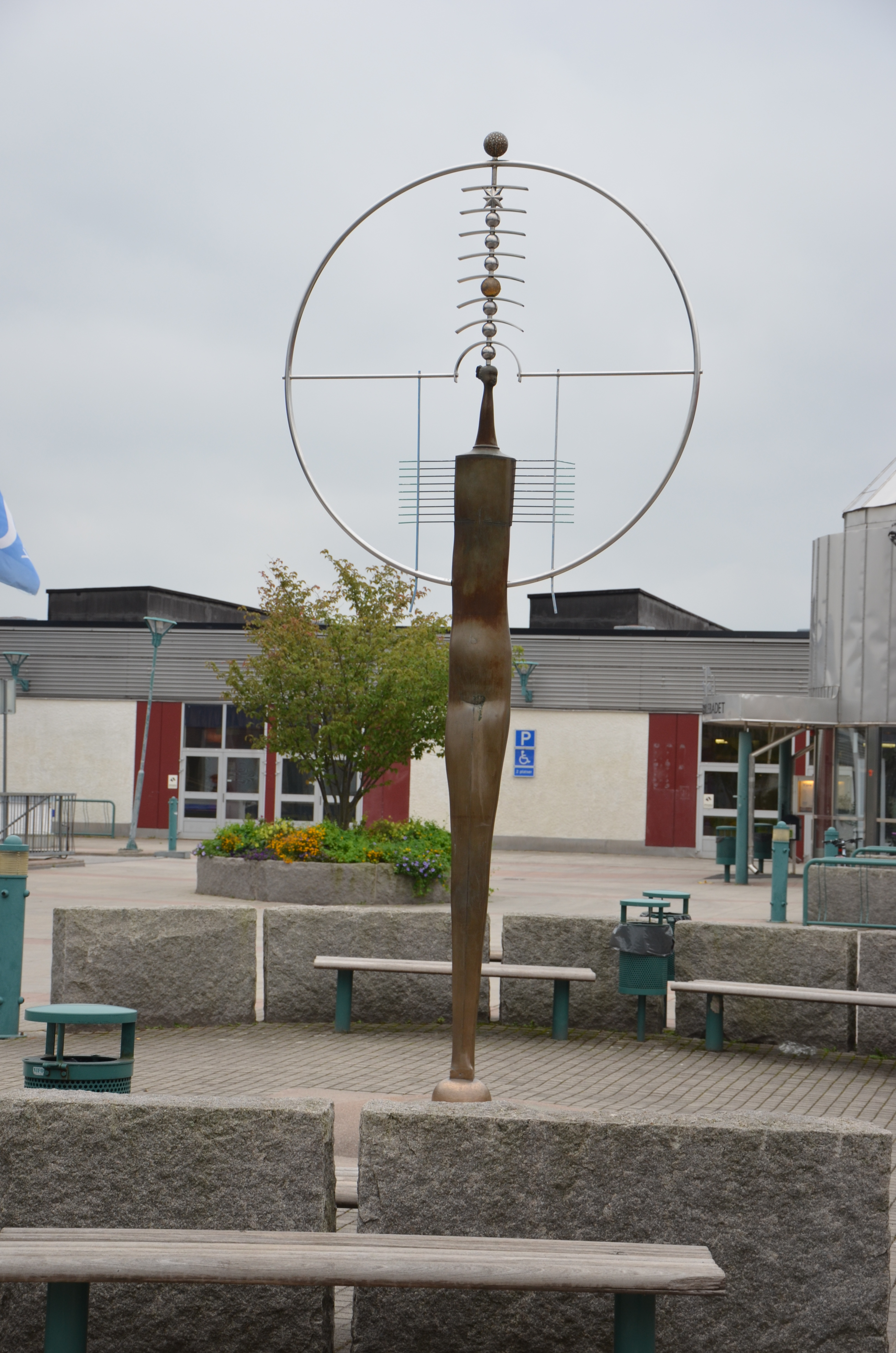 Lennart Jonassons Beatrice, brons och rostfritt stål, utanför Tibble kyrka, mot sportcentrum, 1885